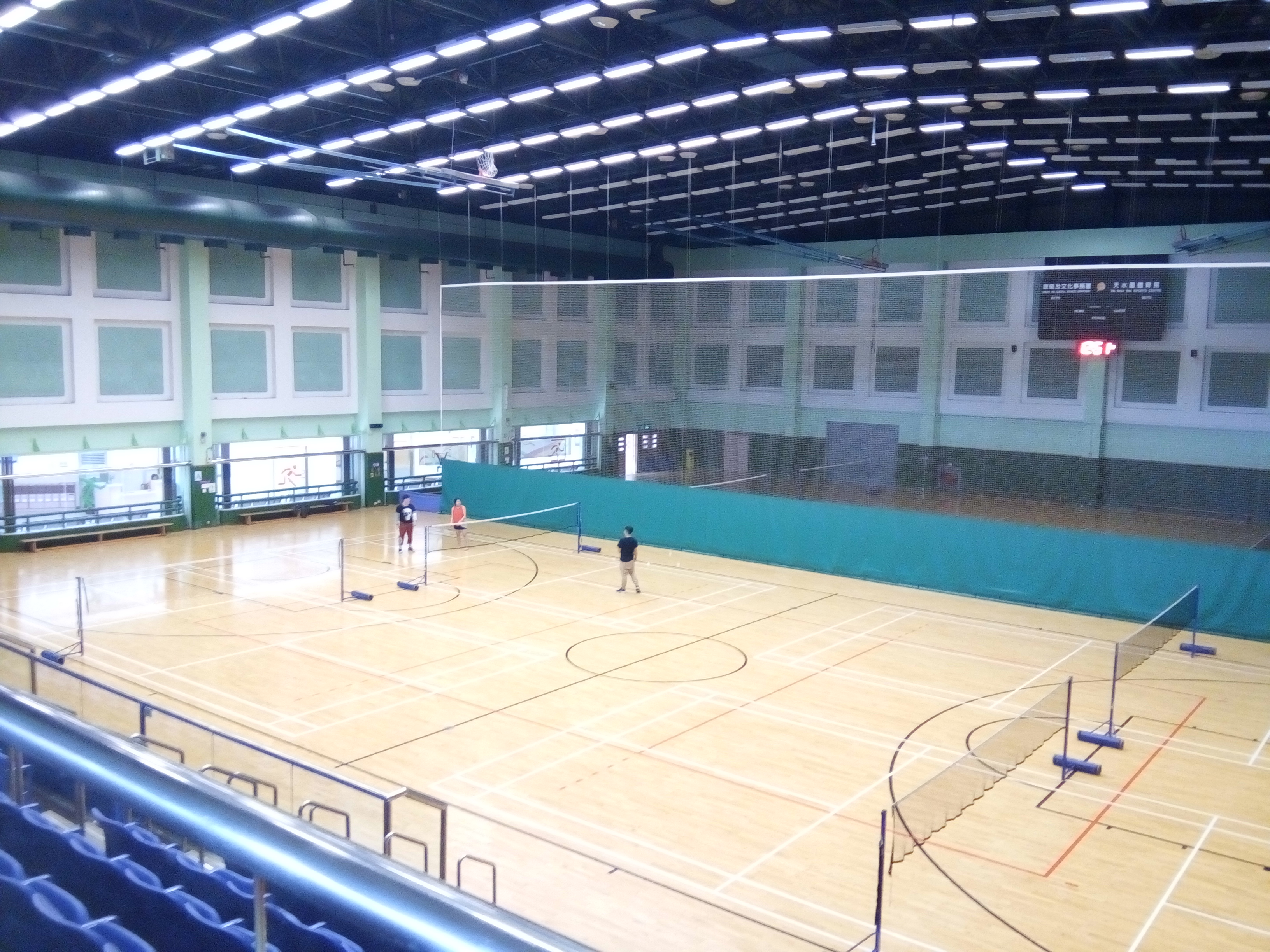 HK TSW 天水圍體育館 Tin Shui Wai Sports Centre in Dec 2016